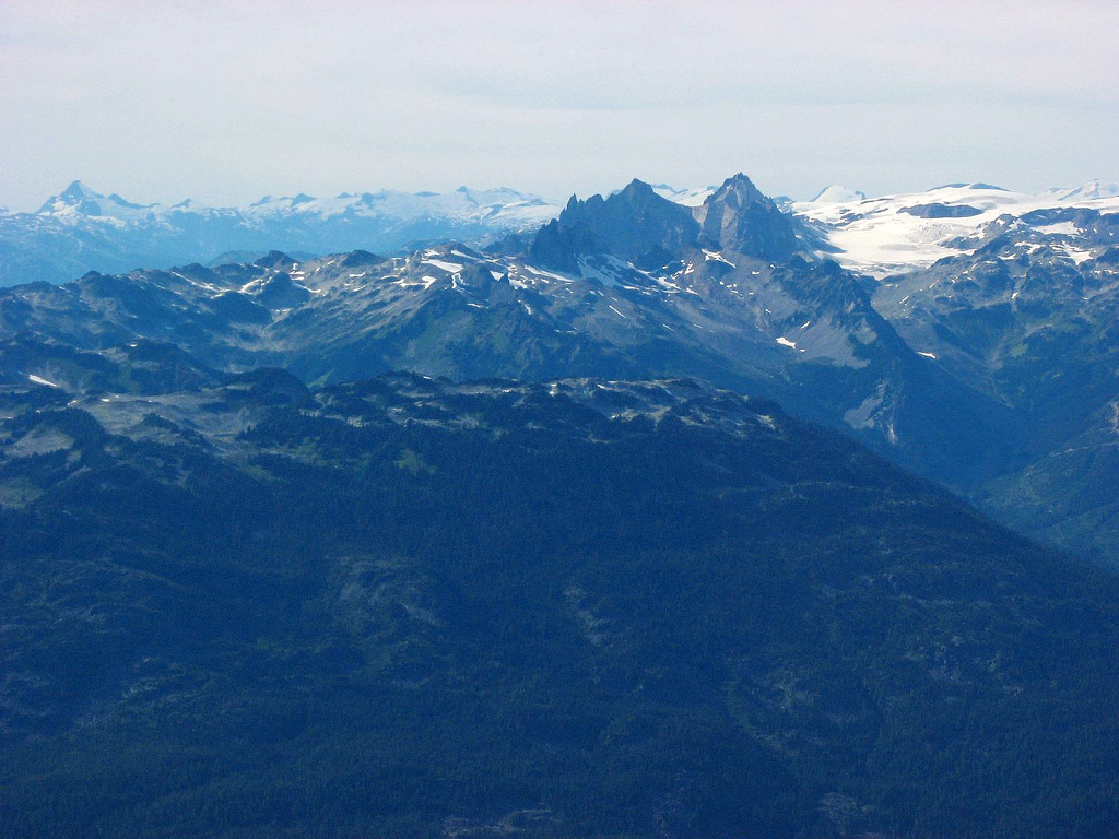 The Mount Cayley volcanic complexView NW